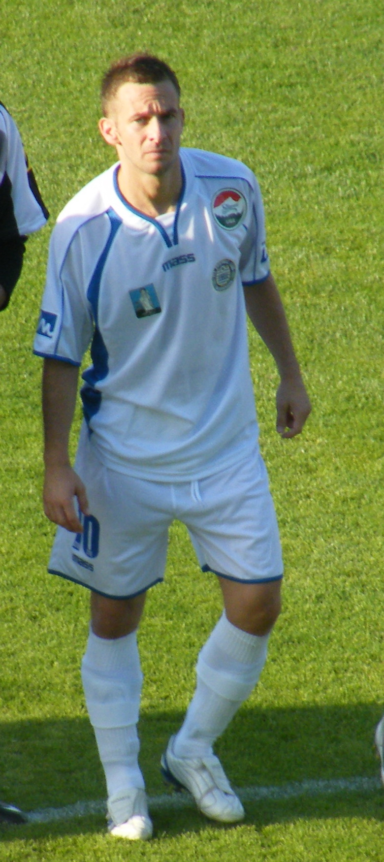 Levente Schultz Hungarian football player